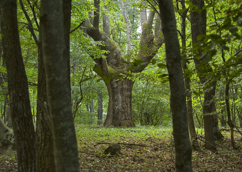 Oak in Strandzha mountain, Bulgaria